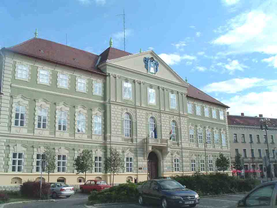 The County Hall Szombathely, Hungary